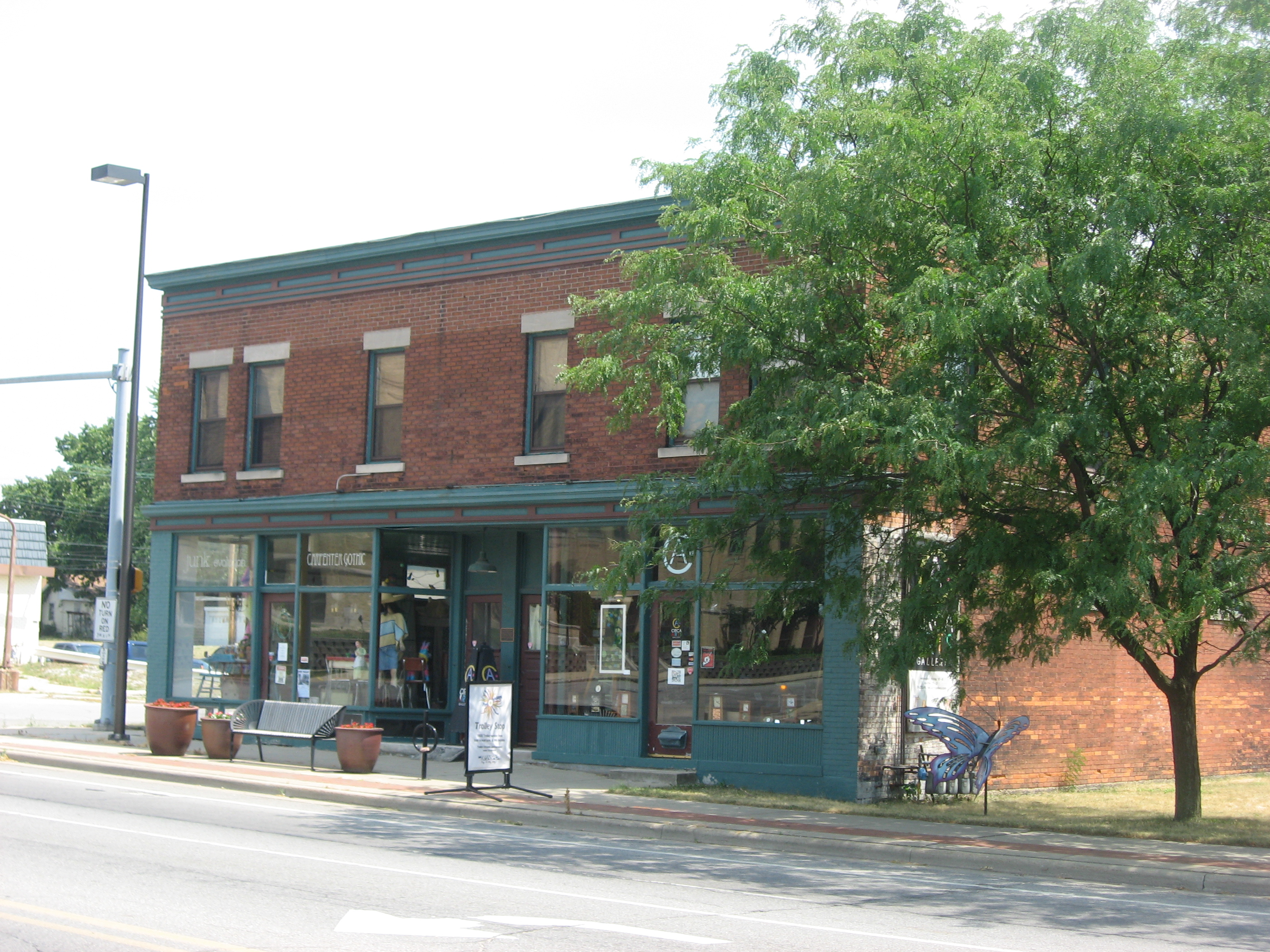 Front of the Charles McCormick Building, located at 526-532 E. Colfax Avenue in South Bend, Indiana, United States. Built in 1904, it is listed on the National Register of Historic Places.